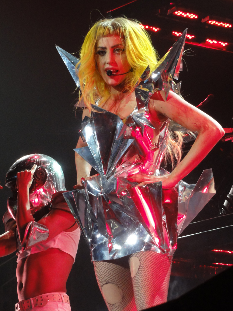 Lady Gaga performing "Bad Romance" on The Monster Ball Tour.